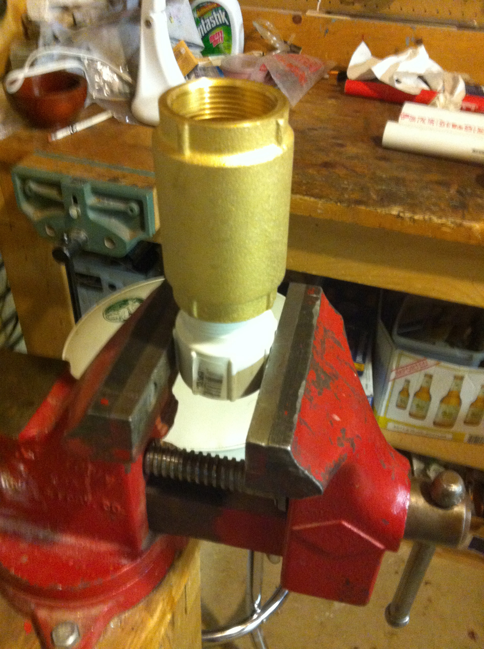 Table vice used to attach parts.